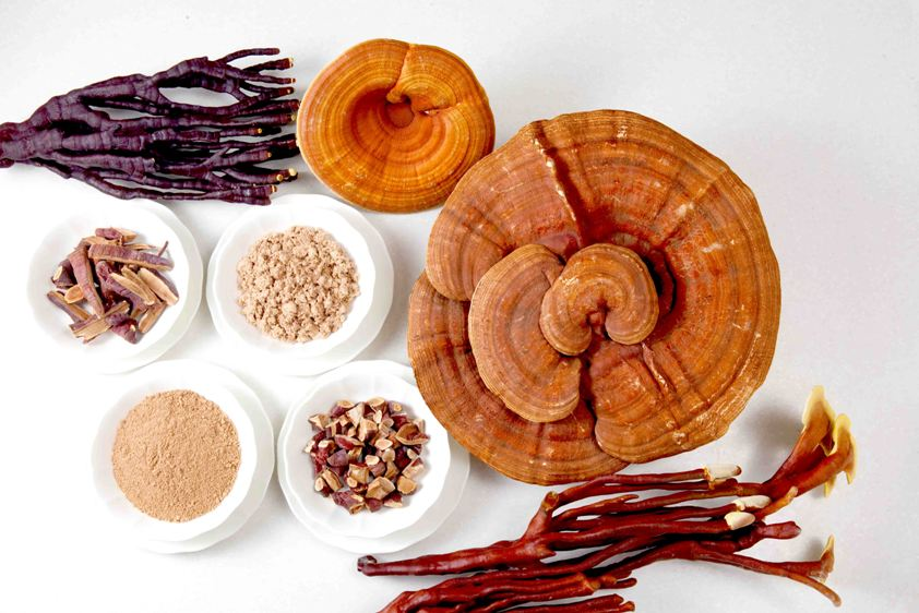 Hokkaido Reishi's black, red, hybrid (ganoderma lucidum, ganoderma amboinense)